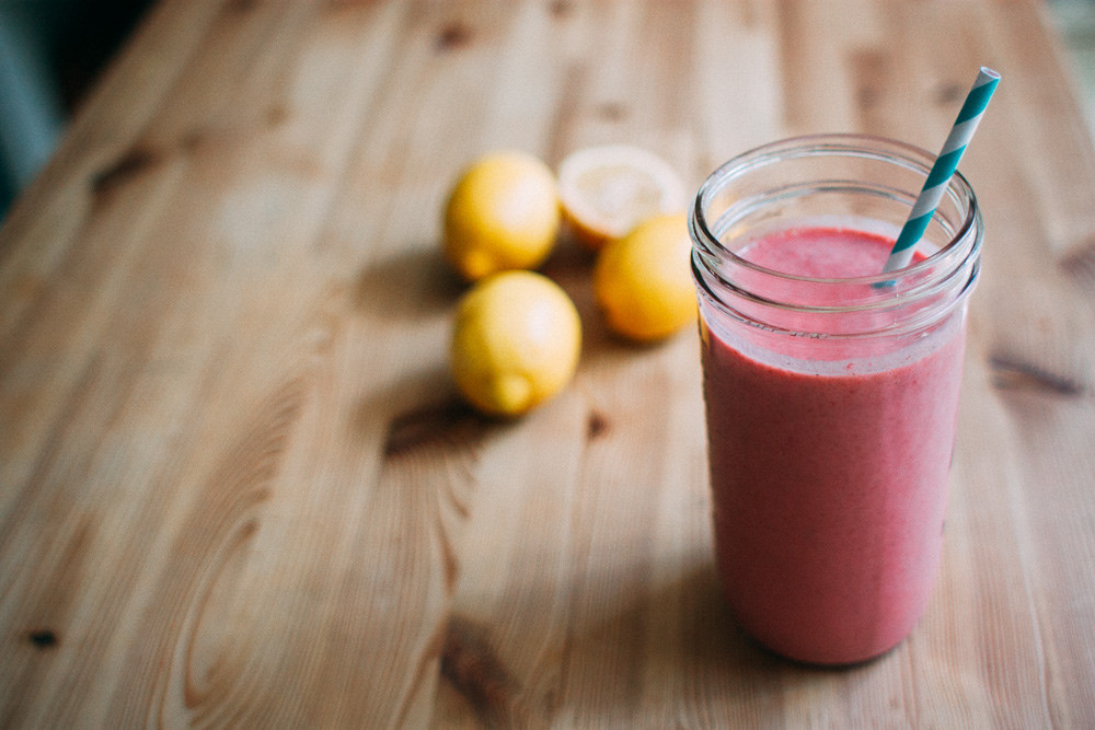 Strawberry Lemon Smoothie